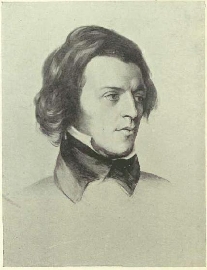 Young Tennyson